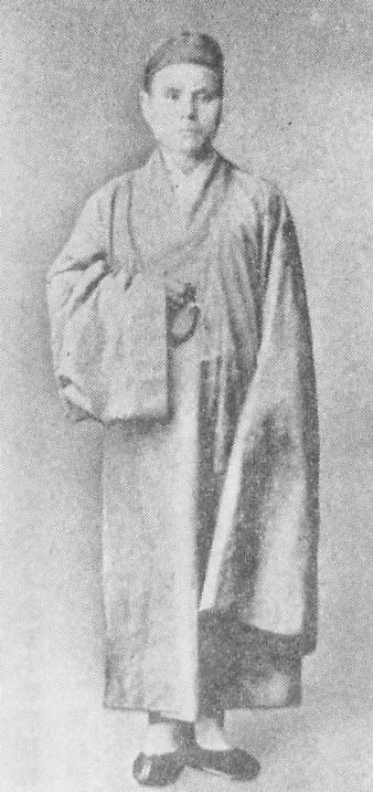 Yutaka Nomi (能海寛), A monk from Japan